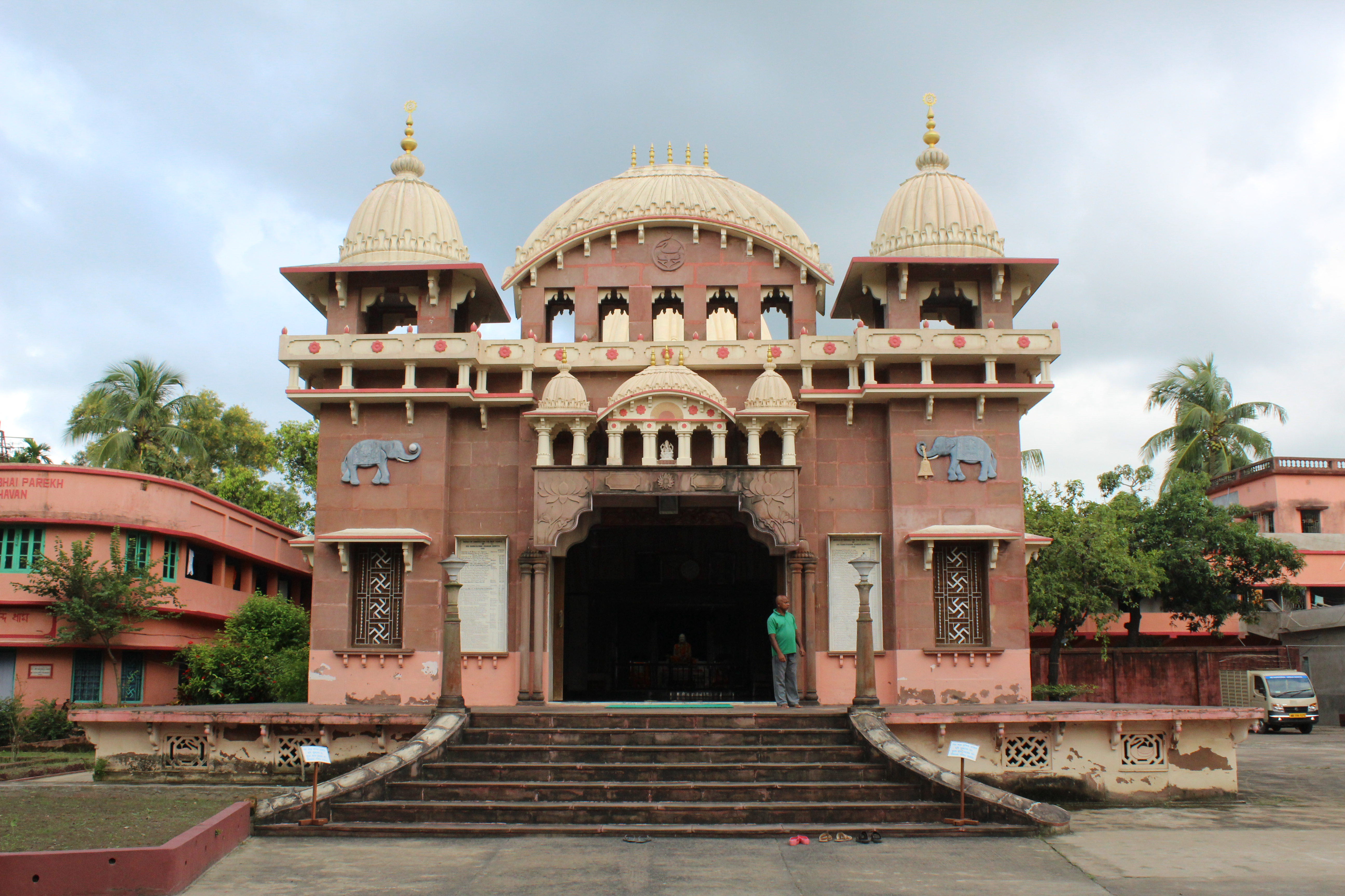 Nimpith Ramakrishna Mission of South 24 Parganas